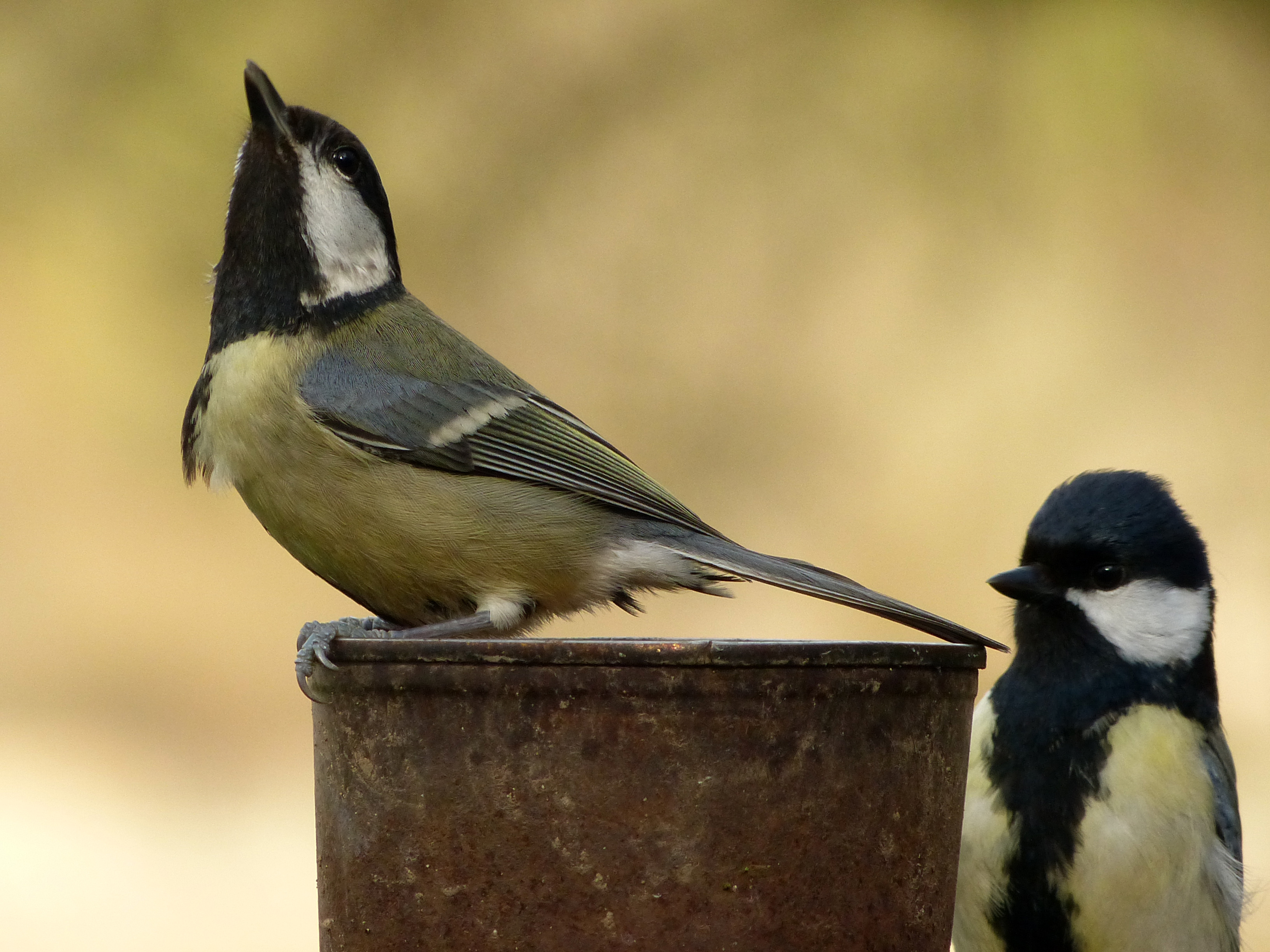 Latin name Parus major Family Tits (Paridae) Overview The largest UK tit - green and yellow with a striking glossy black head with... Where to see them ... When to see them All year round. What they eat Insects, seeds and nuts.